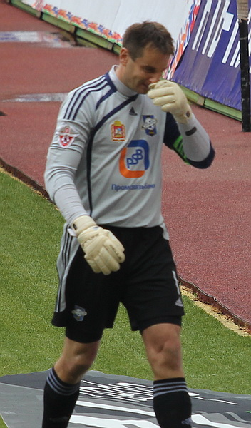 Antonín Kinský